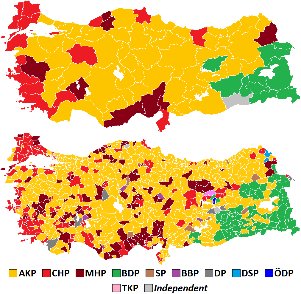 Results by province (top) and by district (bottom) in the 2014 Turkish local election